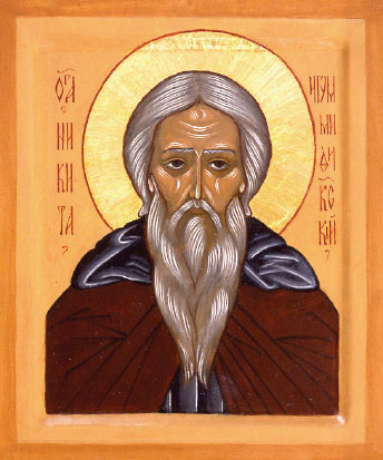 St. Nicetas of Chalcedon (ortodox icon)